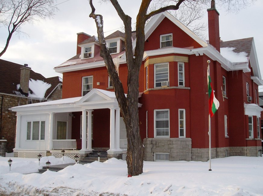 Embassy of Bulgaria, Ottawa, Canada